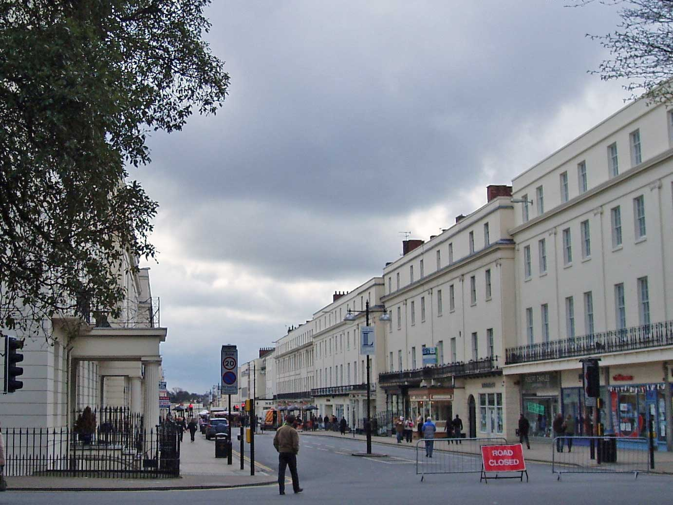 The Parade, Leamington Spa, Warwickshire, England.